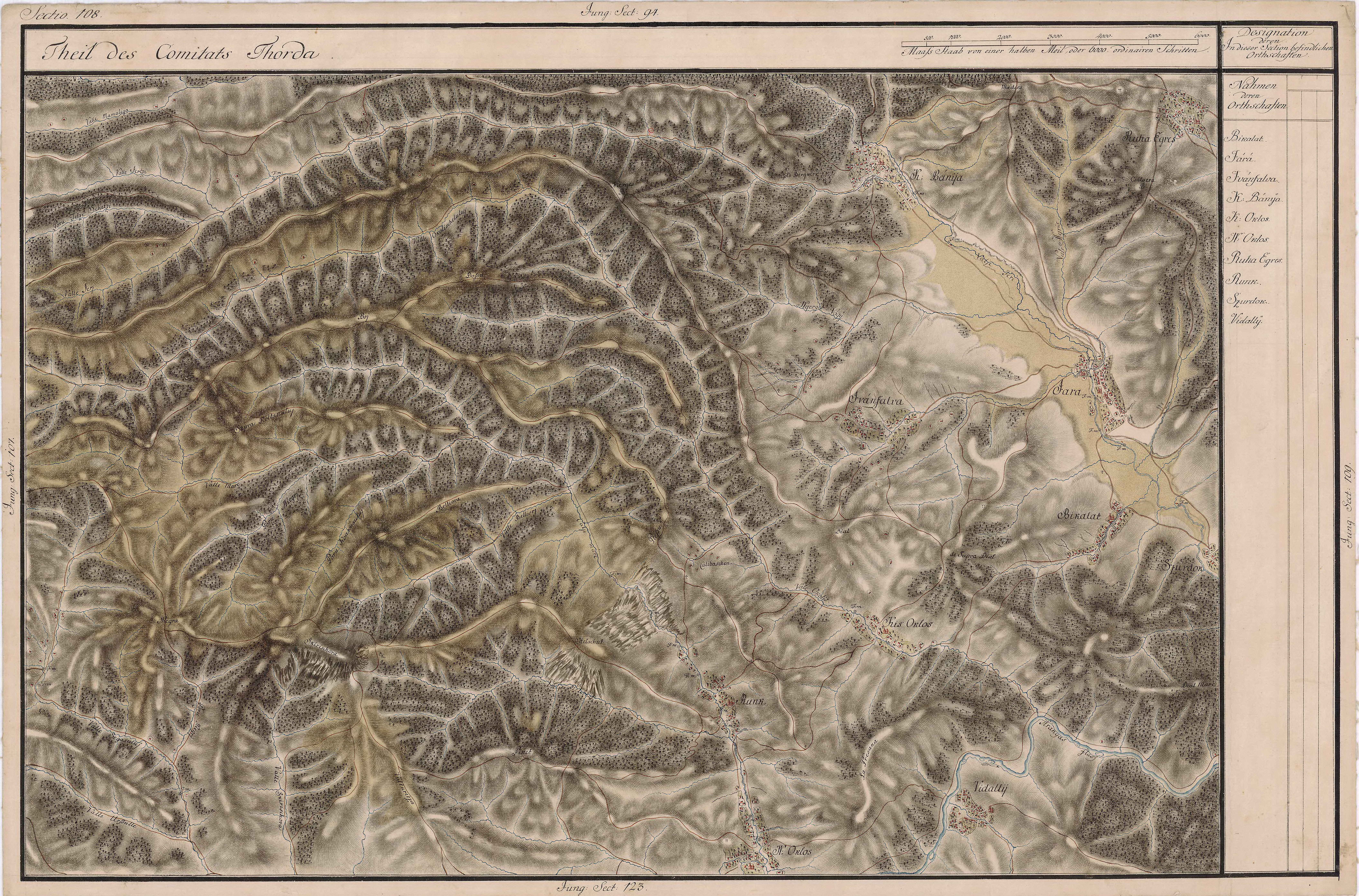 Grand Duchy of Transylvania, 1769-1773. Josephinische Landaufnahme pg.108